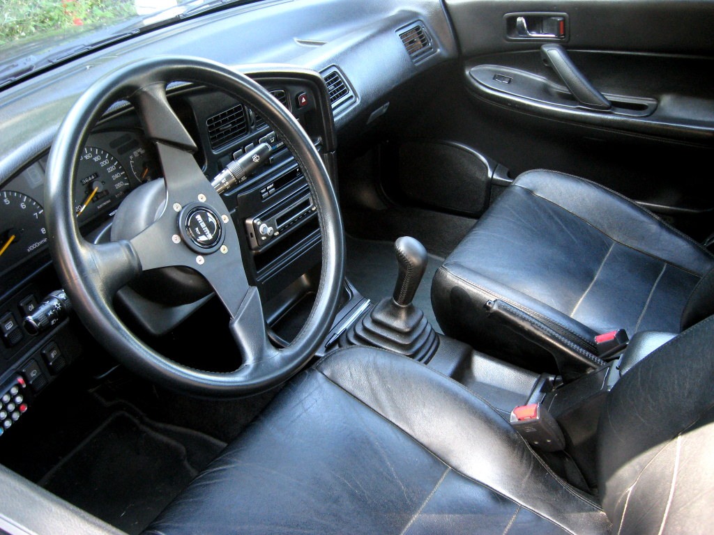 European spec Subaru Legacy Turbo interior (with leather seats)